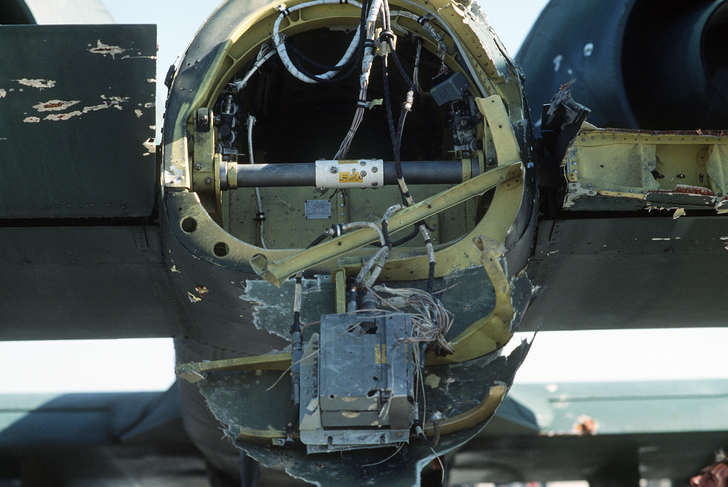 A close-up view of a damaged section of a 23rd Tactical Fighter Wing A-10A Thunderbolt II aircraft. The plane sustained damaged when an SA-16 missile exploded near it during Operation Desert Storm.